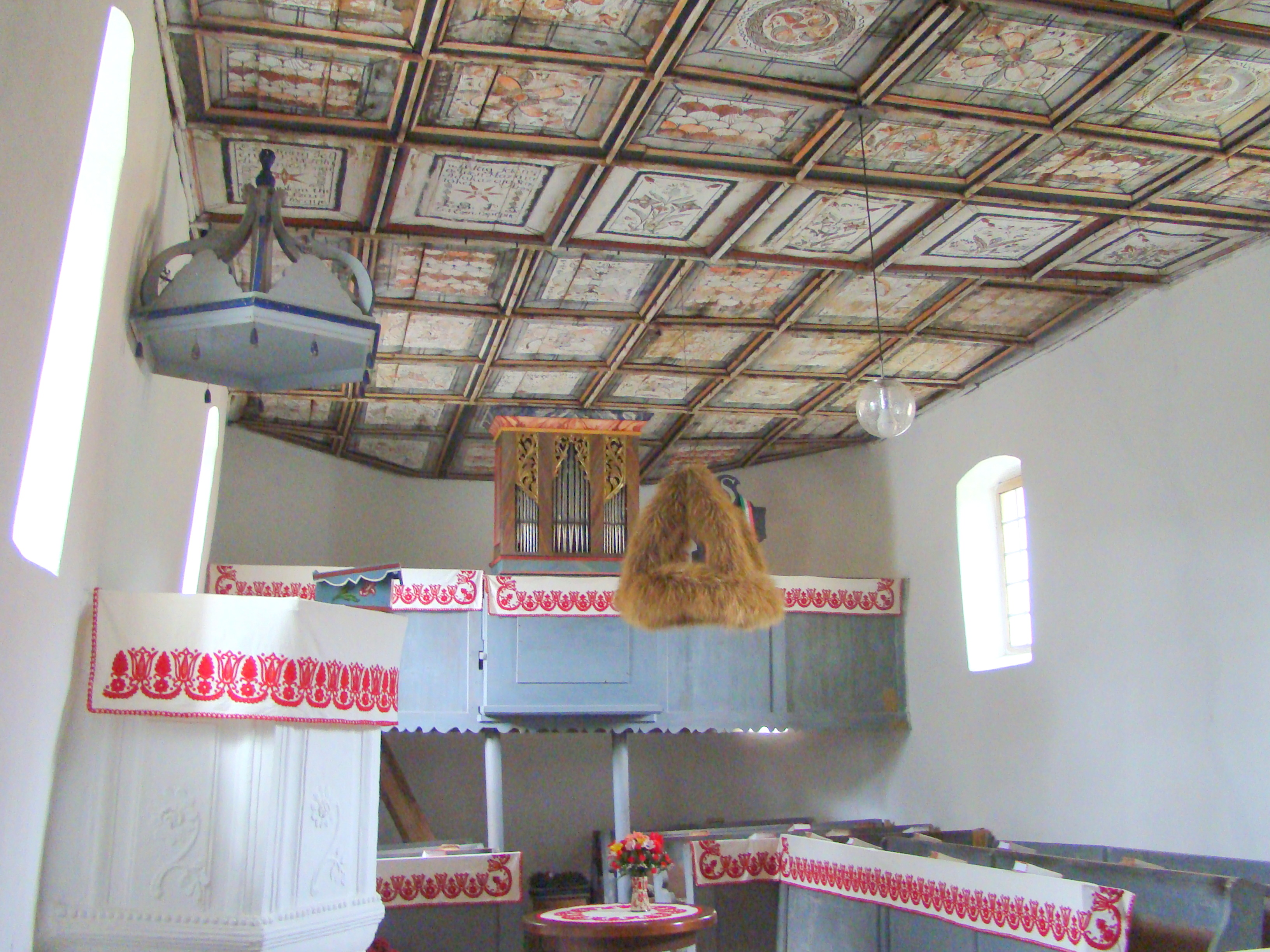 Reformed church in Satu Mic, Harghita county, Romania